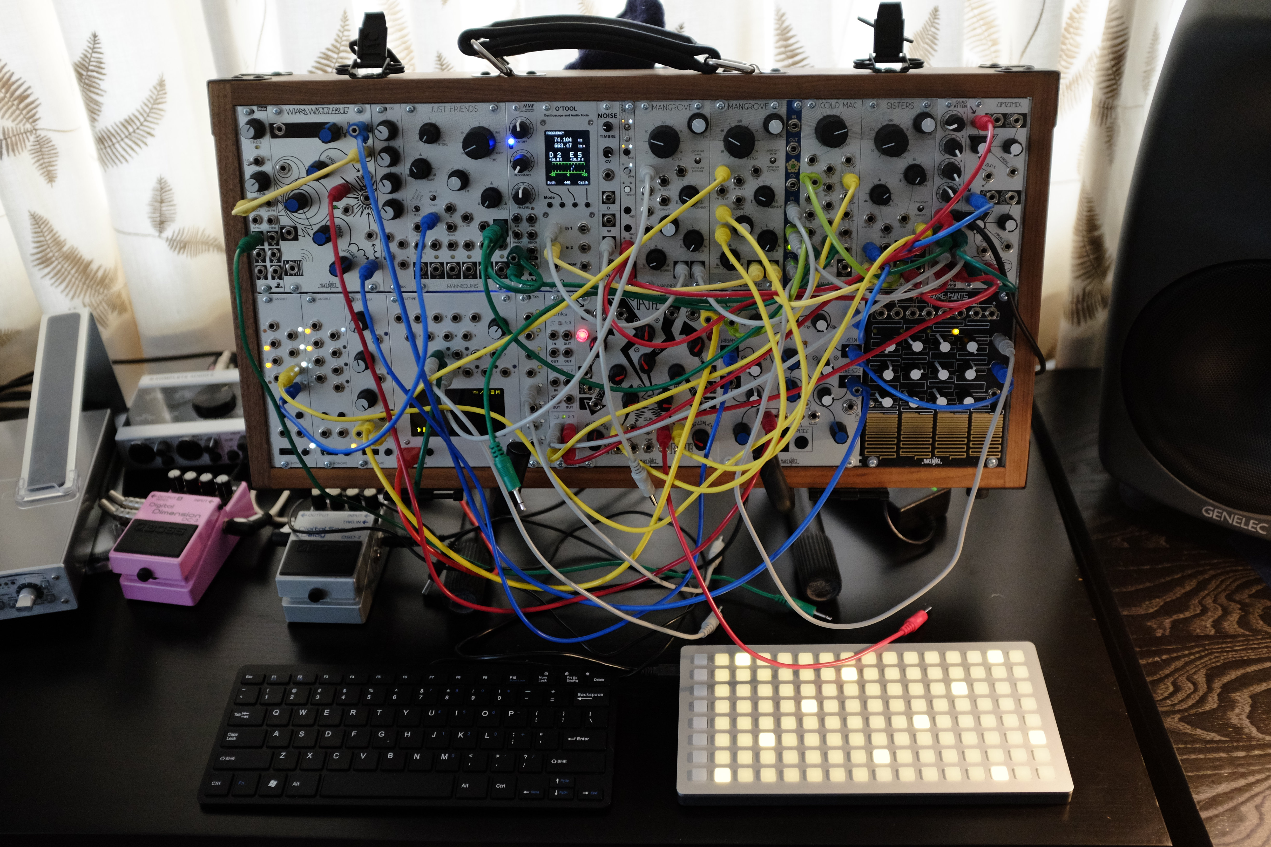 6U Eurorack modular synthesiser, patched with a monome grid